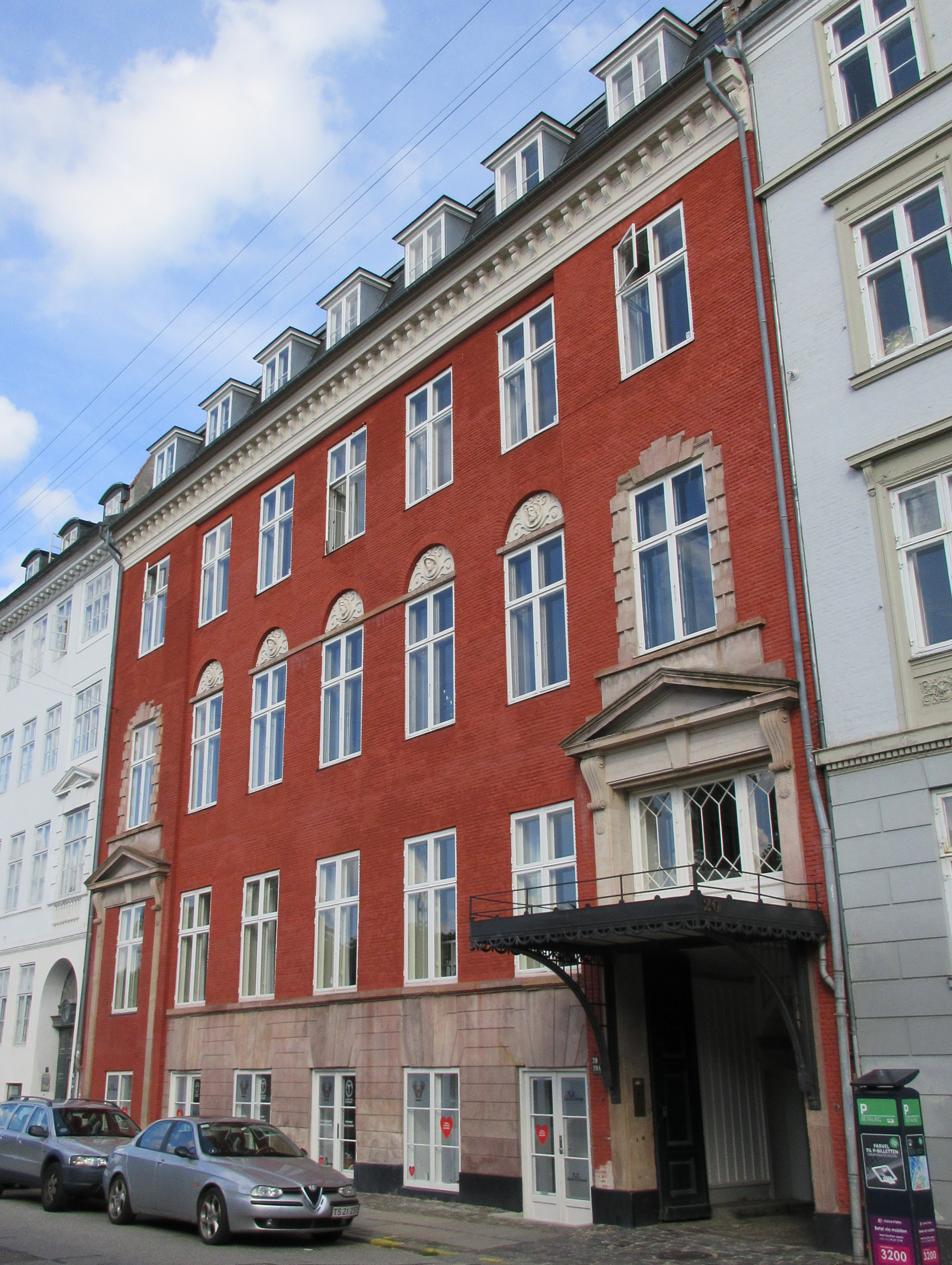 Kronprinsessegade 20 in Copenhagen, Denmark